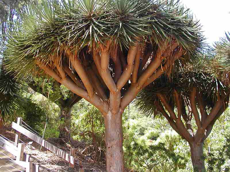 Dragon tree (likely Dracaena draco) from .